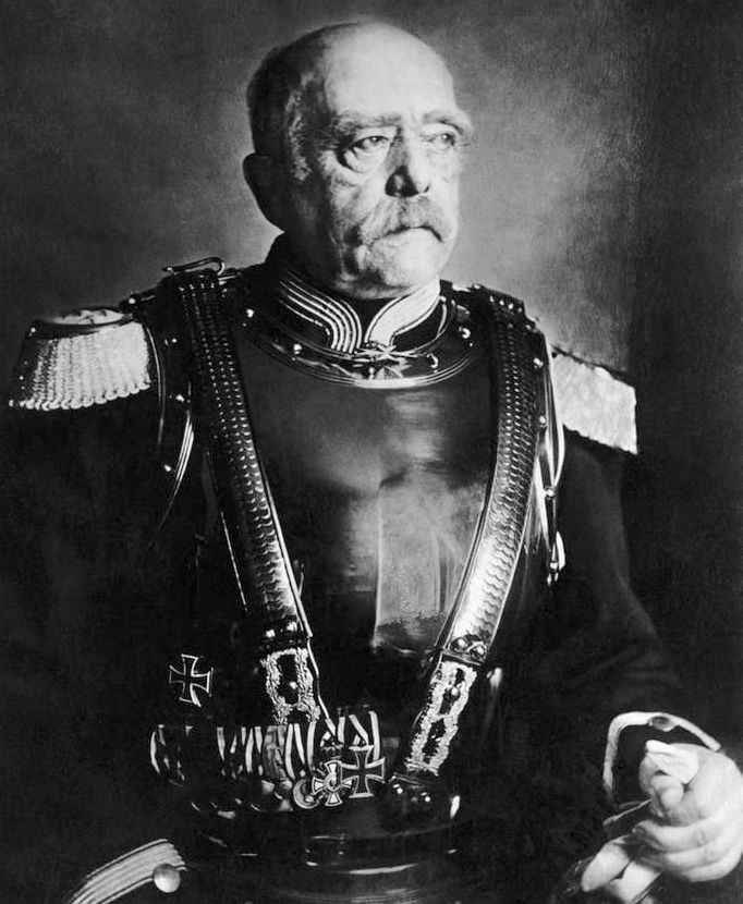 Cropped image of Otto Von Bismark in 1894 wearing the uniform of the regiment of Cuirassier named afetr him "Bismark-Cuirassiers". CREDITO:© Bettmann/CORBIS/LATINSTOCK